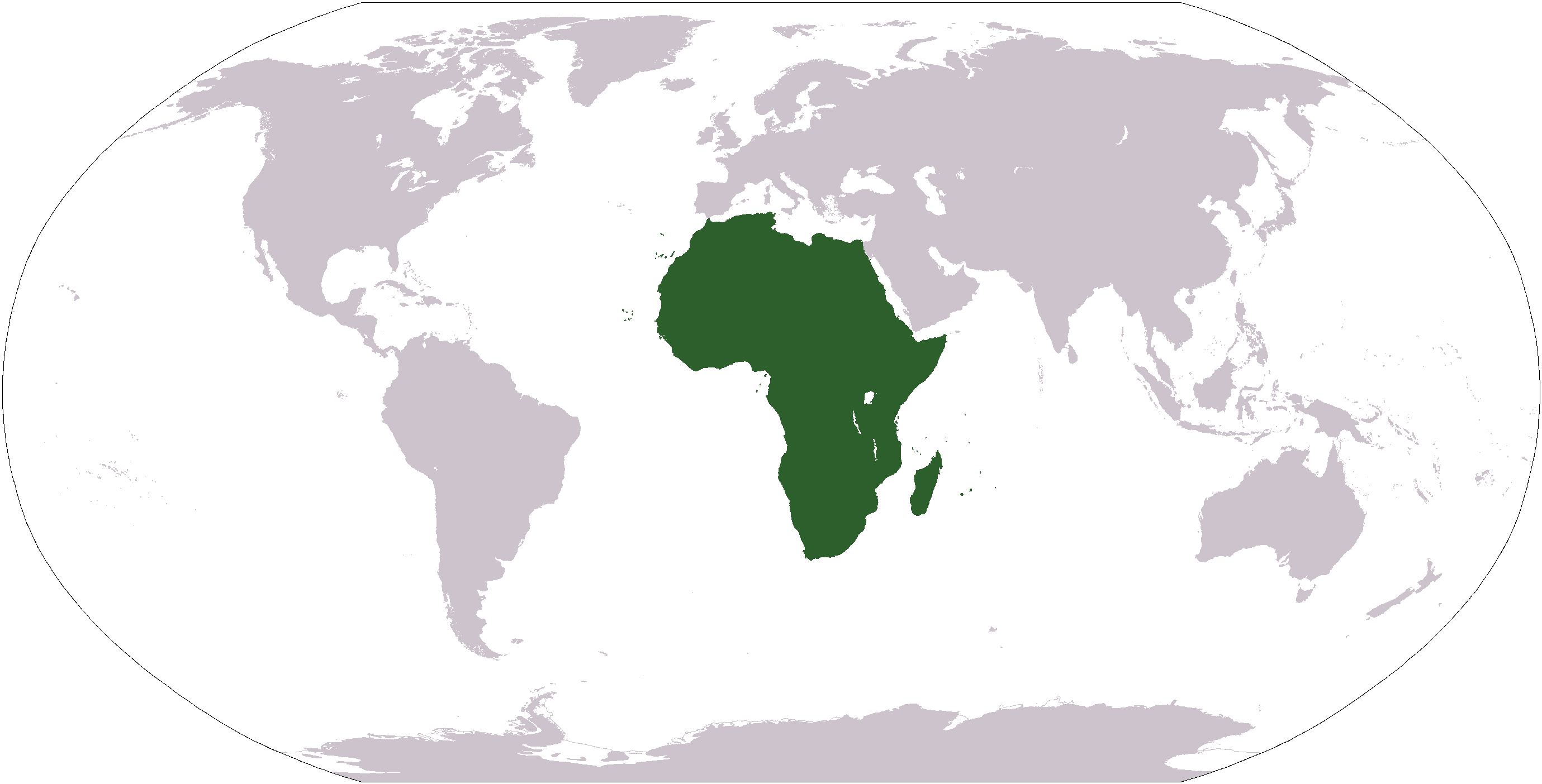 World map depicting Africa